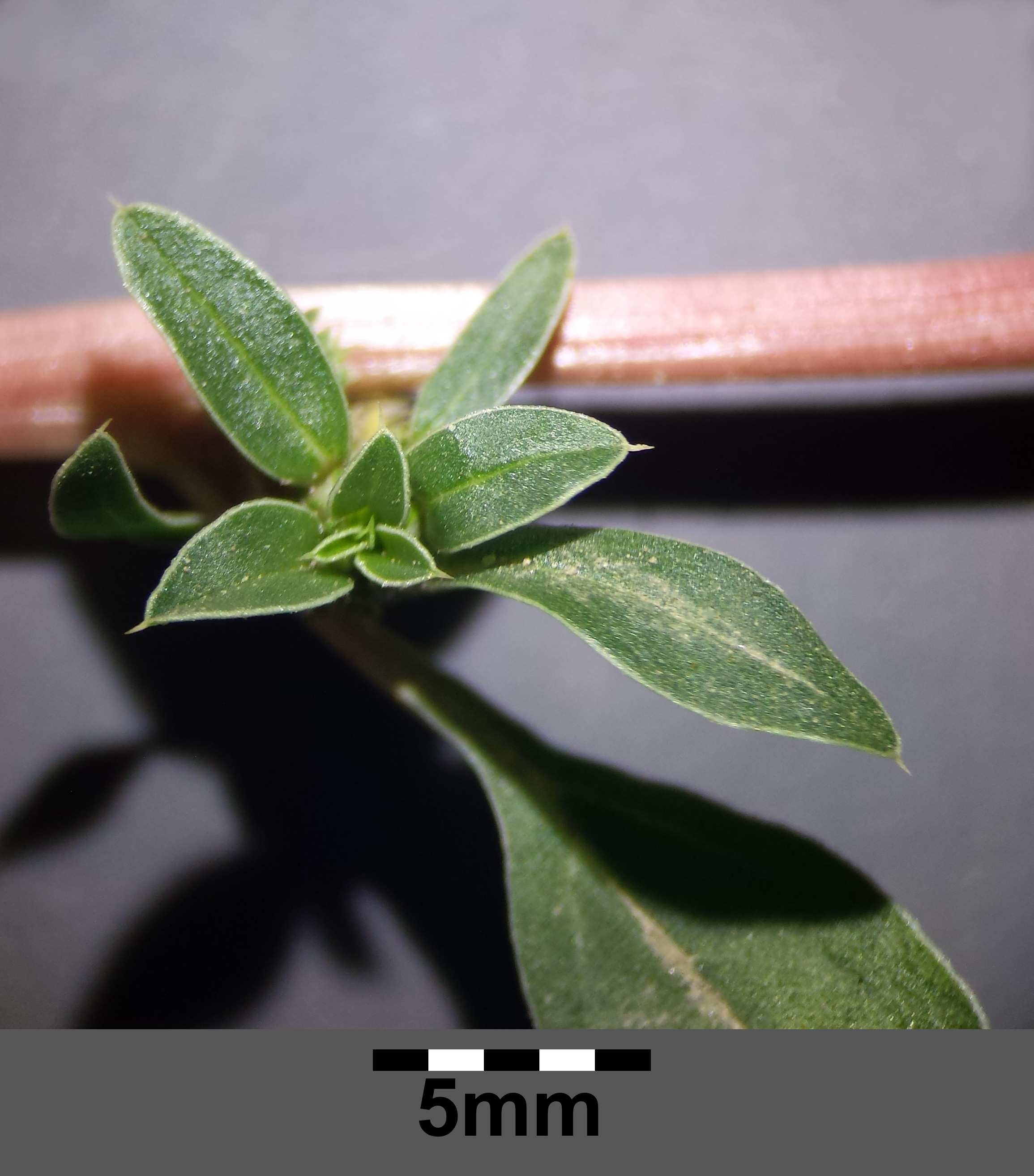 Stipe with leaves Taxonym: Amaranthus blitoides ss Fischer et al. EfÖLS 2008 ISBN 978-3-85474-187-9 Location: Hasswellgasse, Vienna-Floridsdorf - ca. 160 m a.s.l. Habitat: field